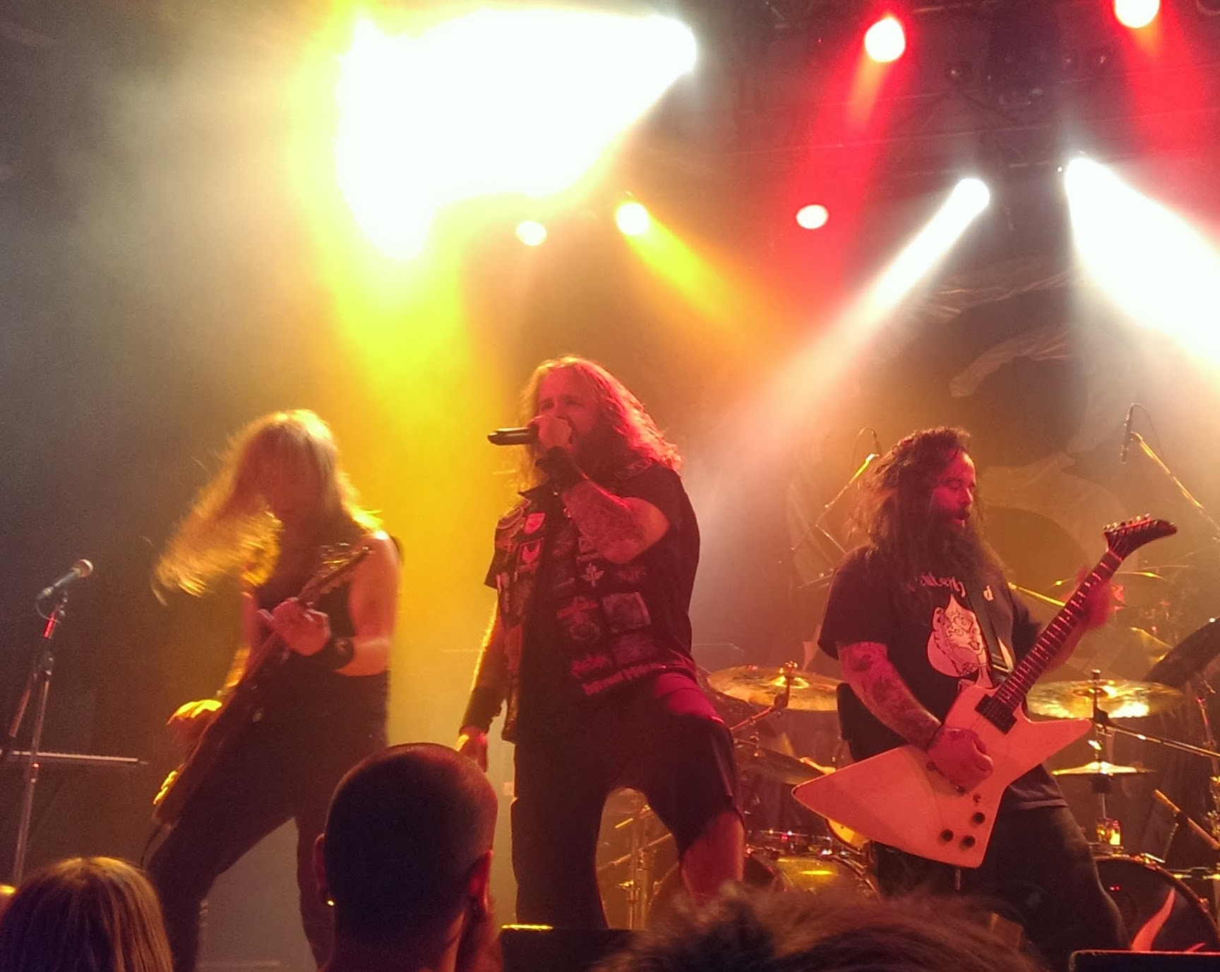 3 Inches of Blood Toronto show